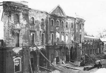 Baroque Branicki Palace in Białystok destroyed by the retreating Germans in 1944.[1]